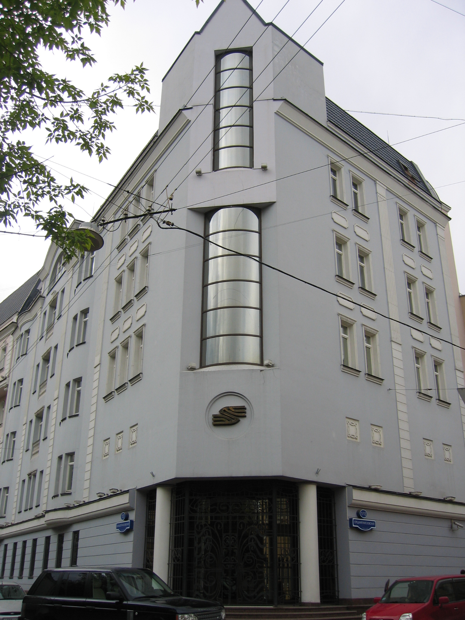 MICEX, head office